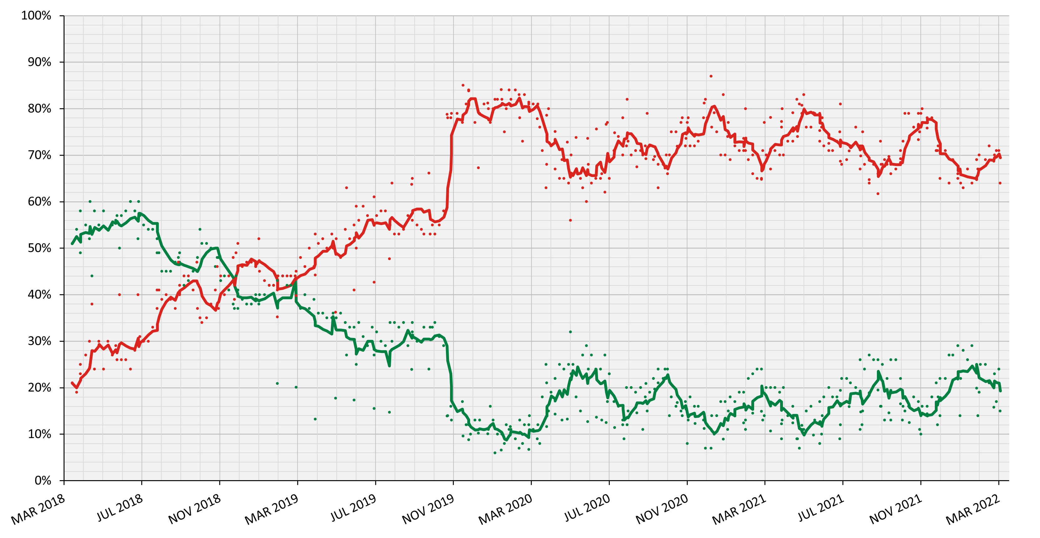 Moving trendline of the last 6 polls of approval and disapproval from March 11, 2018 to the present day.